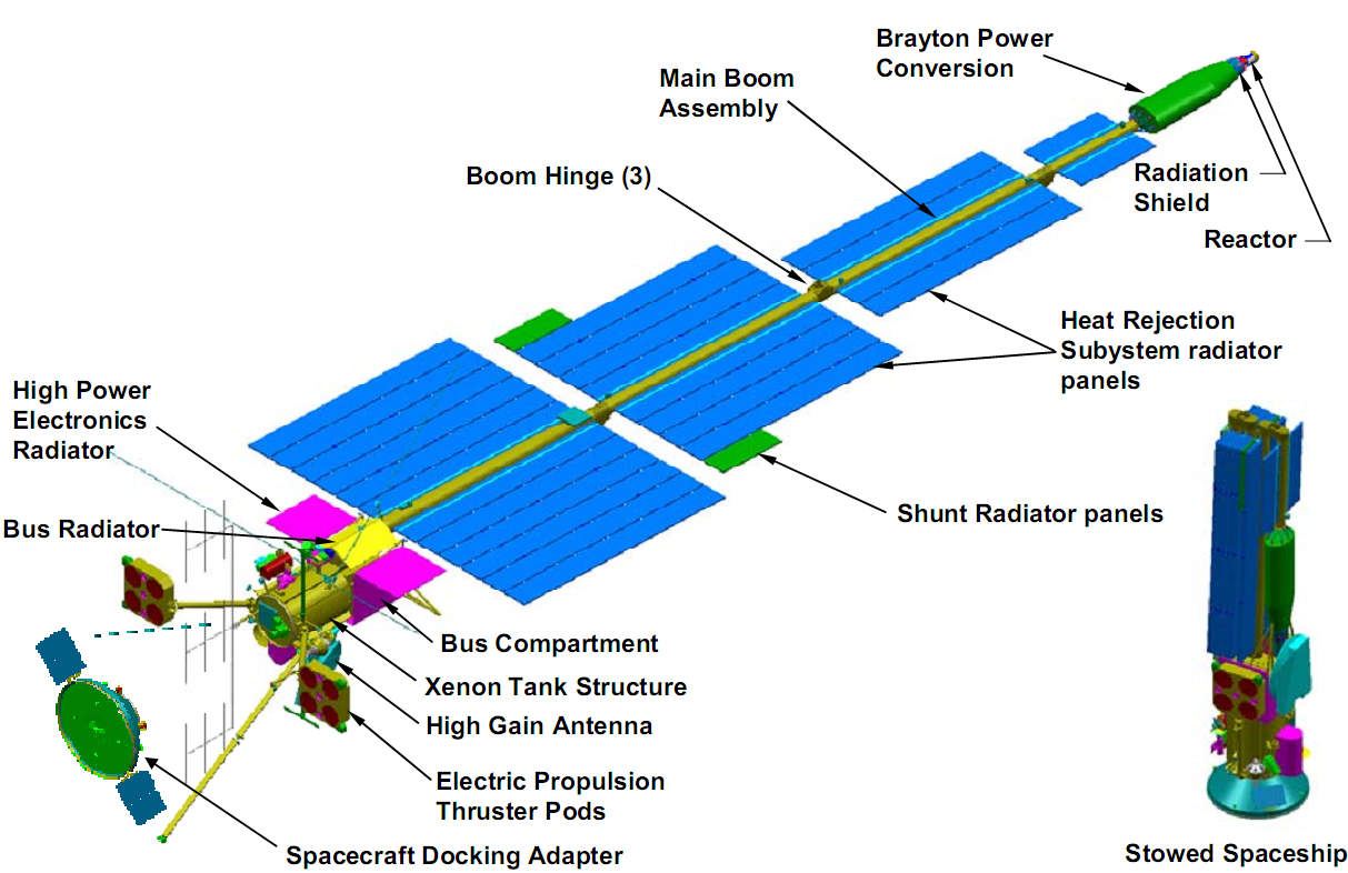 Prometheus 1 spacecraft for the JIMO mission